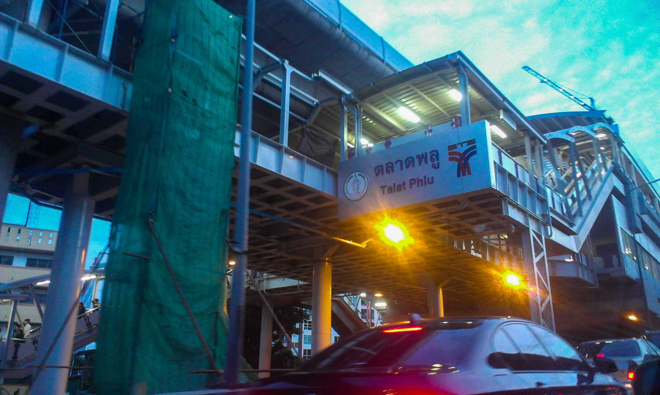 BTS Talad Phlu station